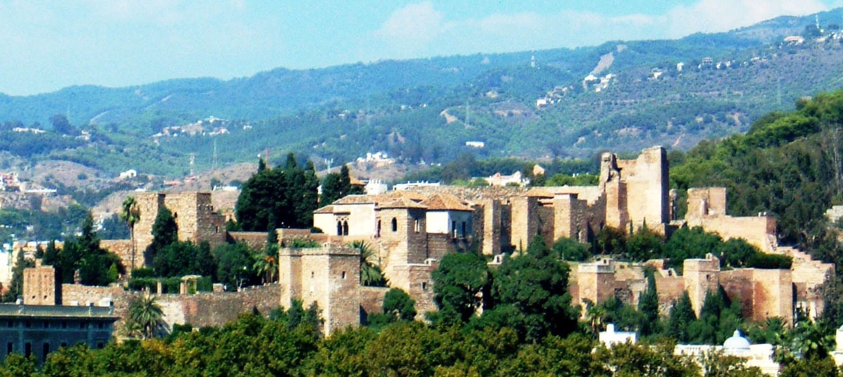 Málaga: View from the harbor to the Alcazaba.